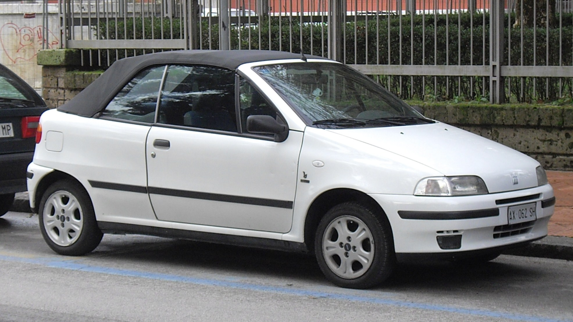 Fiat Punto Cabrio Bertone